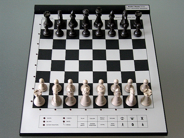 Tandy radio shack 1650 computerized chess